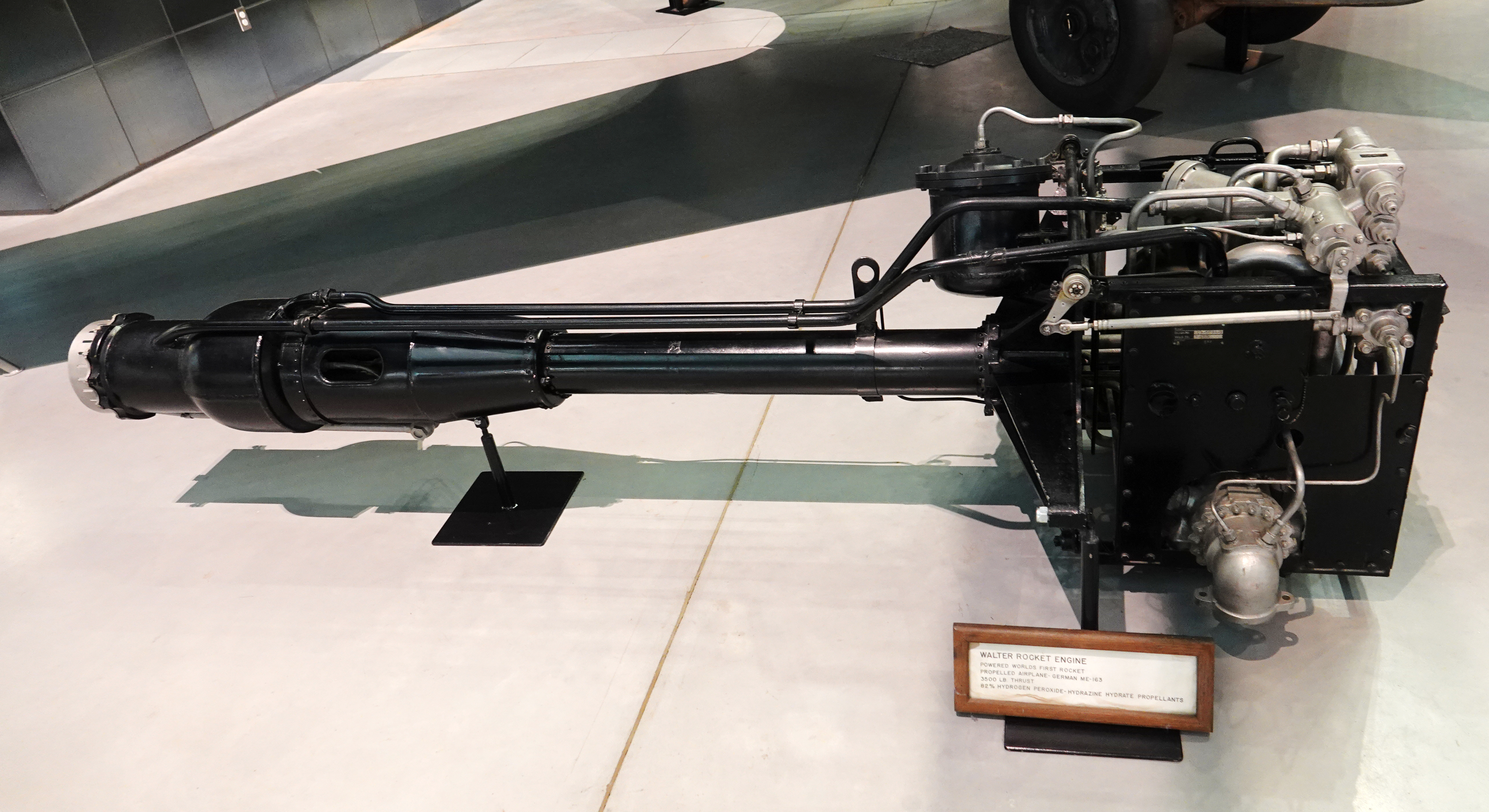 The 109-509A-1 was the power plant for the World War II German Me 163 B-1 Komet rocket fighter. It was the first variable-thrust rocket engine to be installed in a service aircraft and employed hydrogen peroxide with a hydrazine hydrate/methanol mixture as propellants. Some peroxide was diverted to a catalytic chamber containing potassium permanganate, producing steam to drive turbopumps to move the propellants The engine produced from 200-1800 kg (660-3740 lbs) thrust for 8-10 minutes. Developed by the firm of Helmut Walter in Kiel, it went into series production in August 1944. The Me 163 B-1, the world's first and only operational rocket fighter, was used in attacks against U.S. bombers in the fall of 1944, but did not prove very successful. The Smithsonian received this engine as a gift from Purdue University in 1967, which presumably had received it from the U.S. Air Force after World War II. Picture taken at the National Air and Space Museum's Steven F. Udvar-Hazy Center in Chantilly, Virginia, USA. Dimensions: Overall: 2 ft. 3 in. tall x 3 ft. 1/2 in. wide x 8 ft. 5 1/2 in. deep x 8 in. diameter, 365 lb. (68.6 x 92.7 x 257.8 x 20.32cm, 165.6kg) Materials: Steel, Stainless Steel, Aluminum, Paint Manufacturer: Helmuth Walter KG Country of Origin: Germany